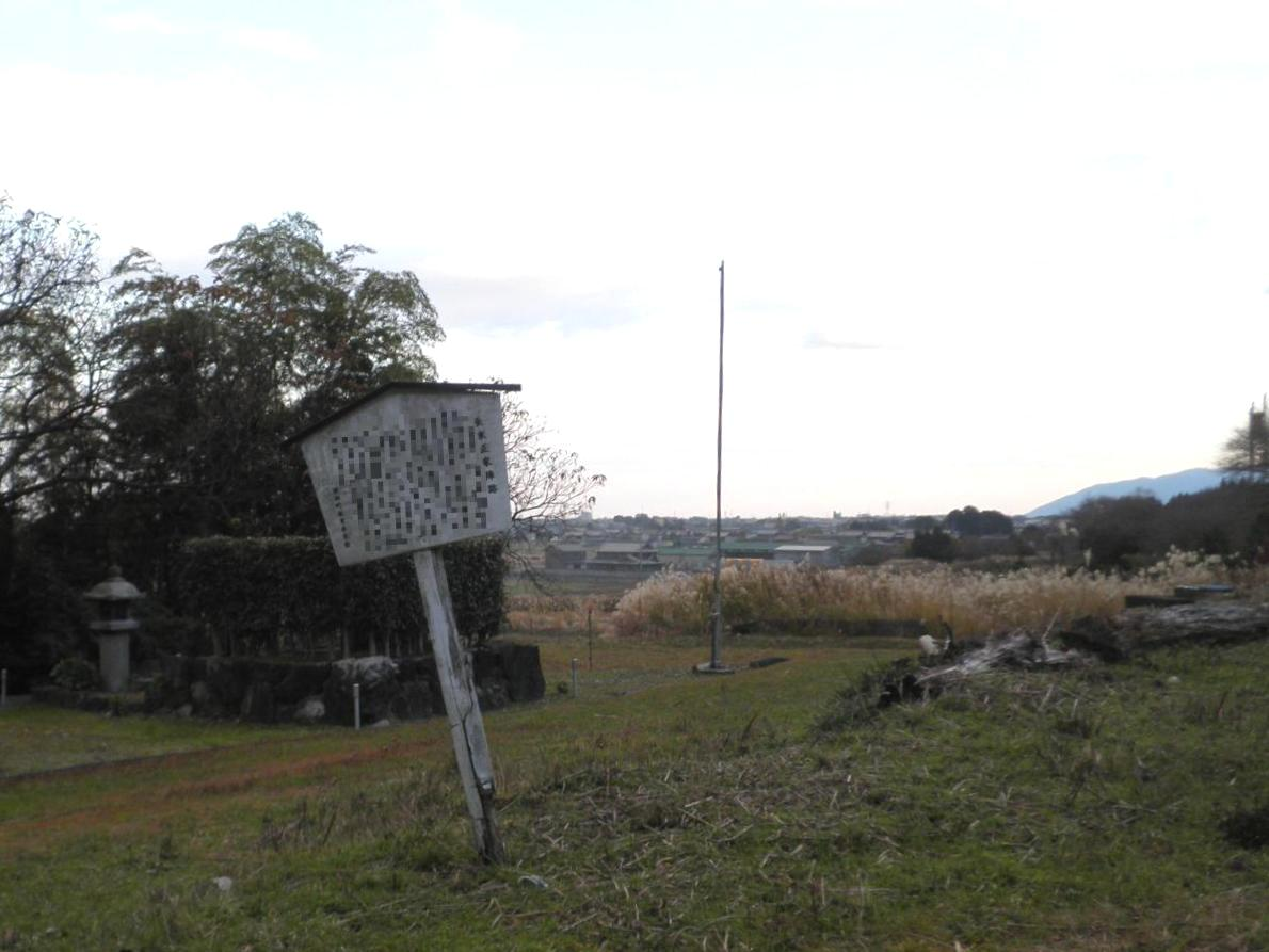 Site of Natsuka Masaie's position in the Battle of Sekigahara located in Tarui, Gifu.